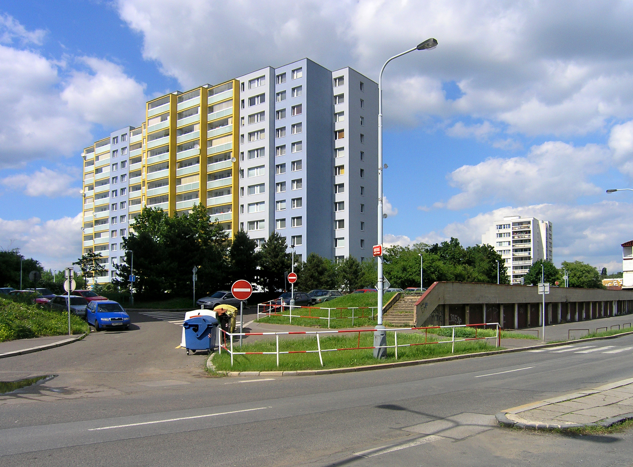 Slévačská street in Hloubětín, Prague